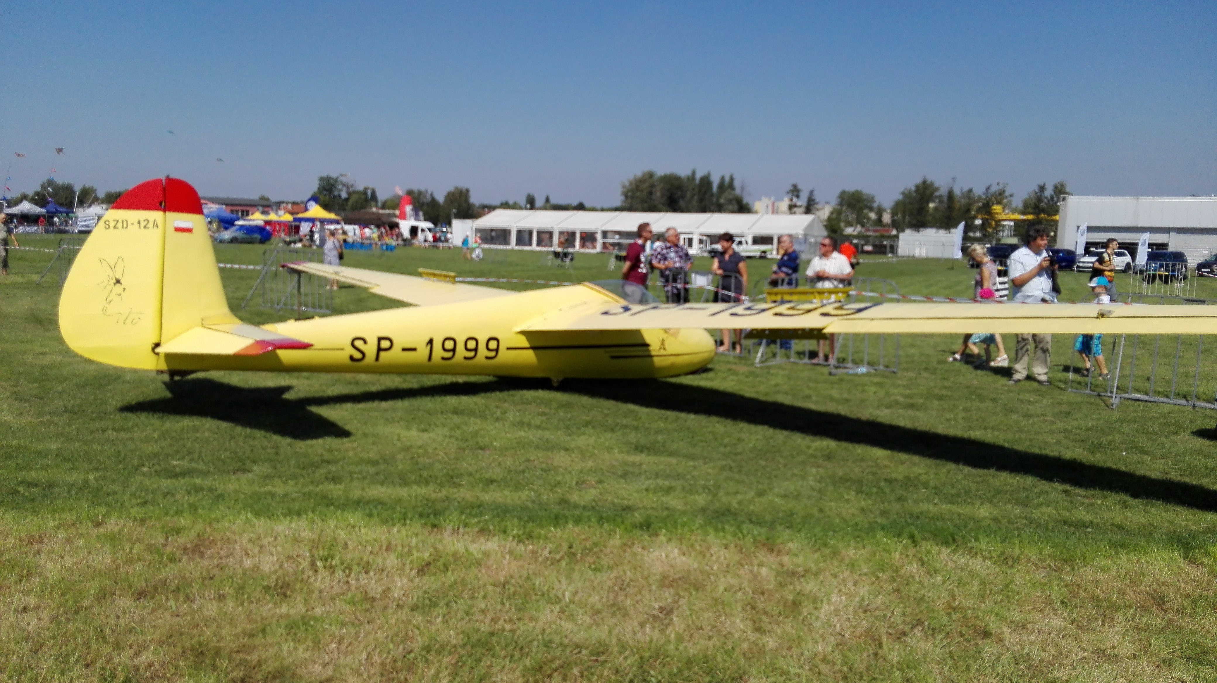 SZD-12 Mucha 100A